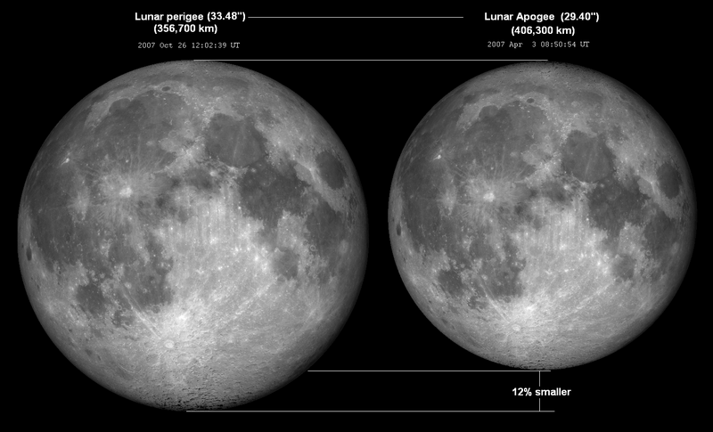 Lunar perigee and apogee apparent size comparison (from April and October 2007, when events occurred near full-phases) thumb|FullSky Observatory software logo External links Inconstant Moon: The Moon at Perigee and Apogee Apogee Moon, Perigee Moon NASA APOD October 25, 2007 (Feb/Sept 2006 photographic comparison)